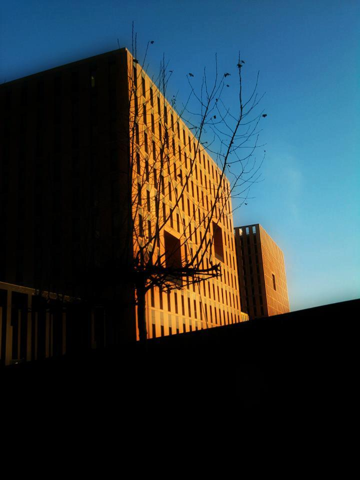 Palace of justice of Salerno, Italy, by David Chipperfield.